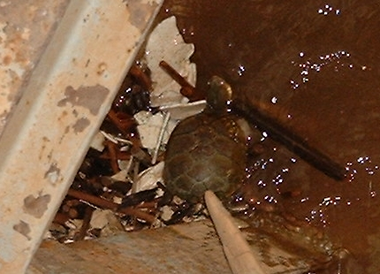 A box turtle (Terrapene carolina ?) stranded on a very small area of debris floating in an irrigation canal. Since box turtles can drown, it was rescued immediately after this photo was taken.